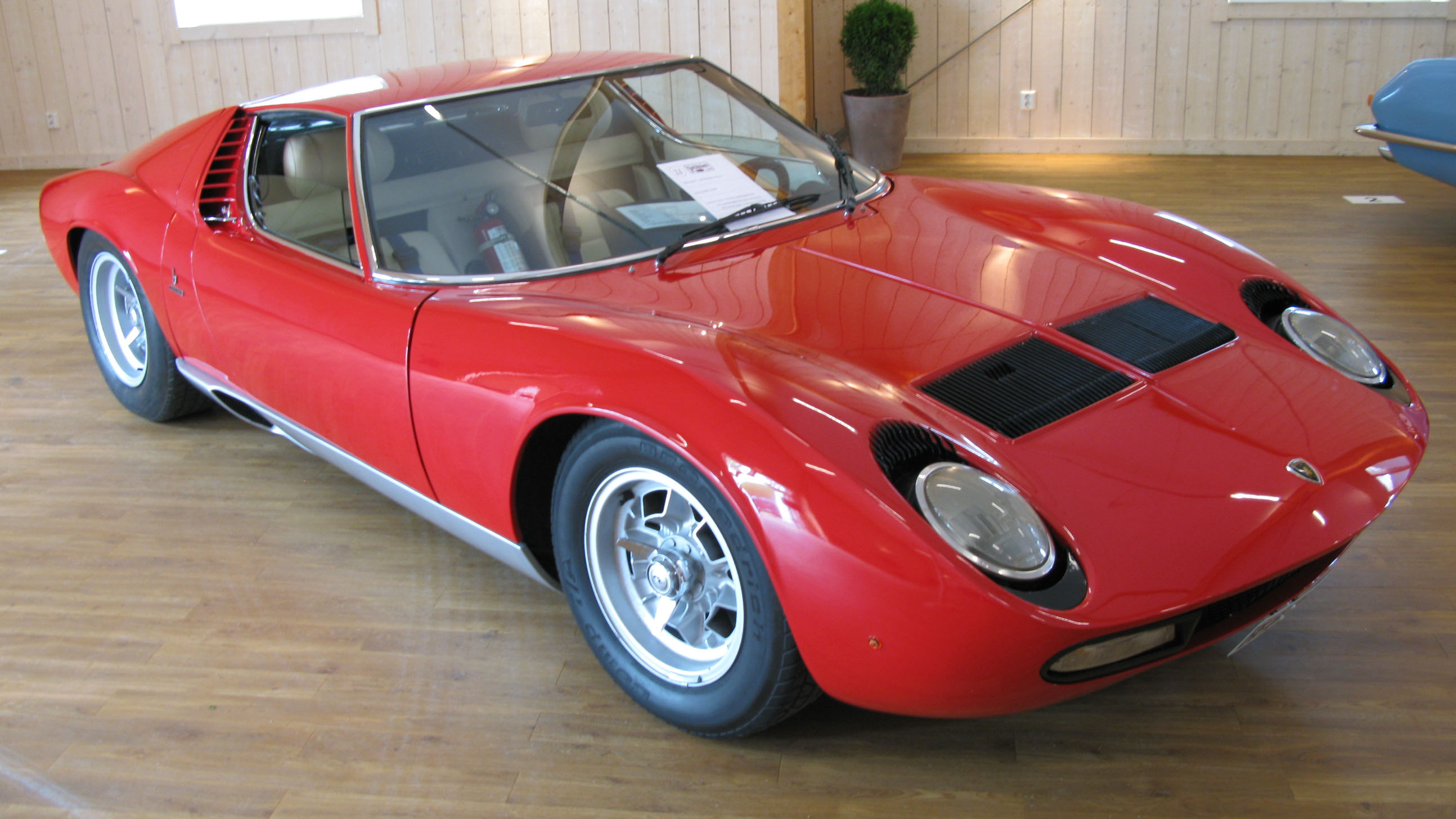 1968 Lamborghini Miura P400.